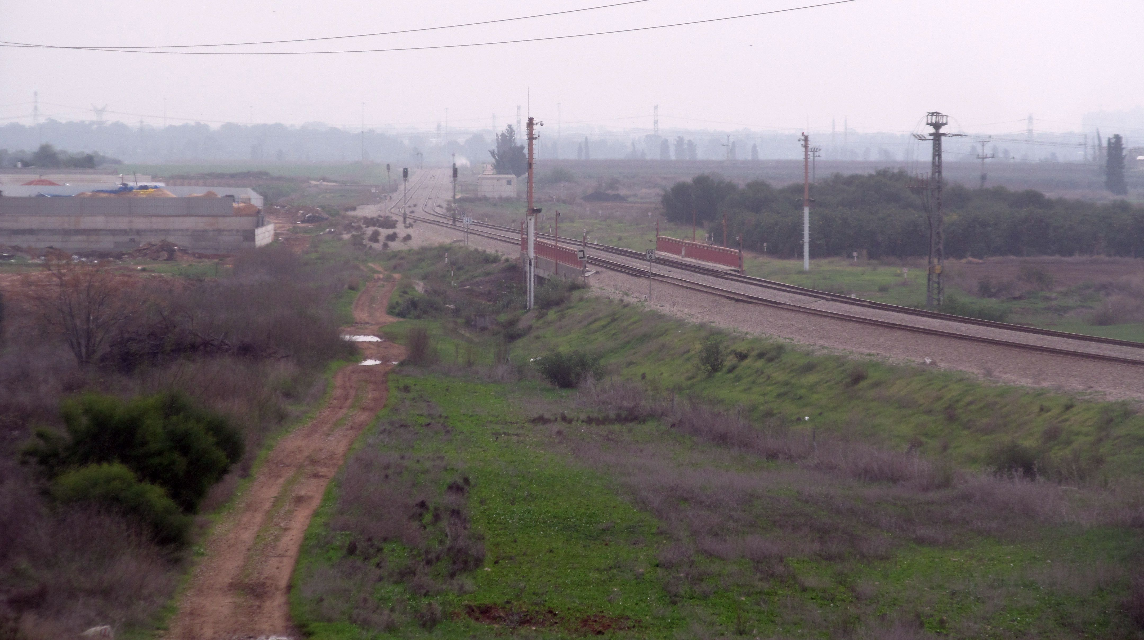 The current northern end of Eastern Railway: the dirt road, crossing Nahal Qana on a low stonework bridge, is on the alignment of the original single-track line; the double-track line, crossing the stream on a big concrete bridge, is turning towards Sharon Railway